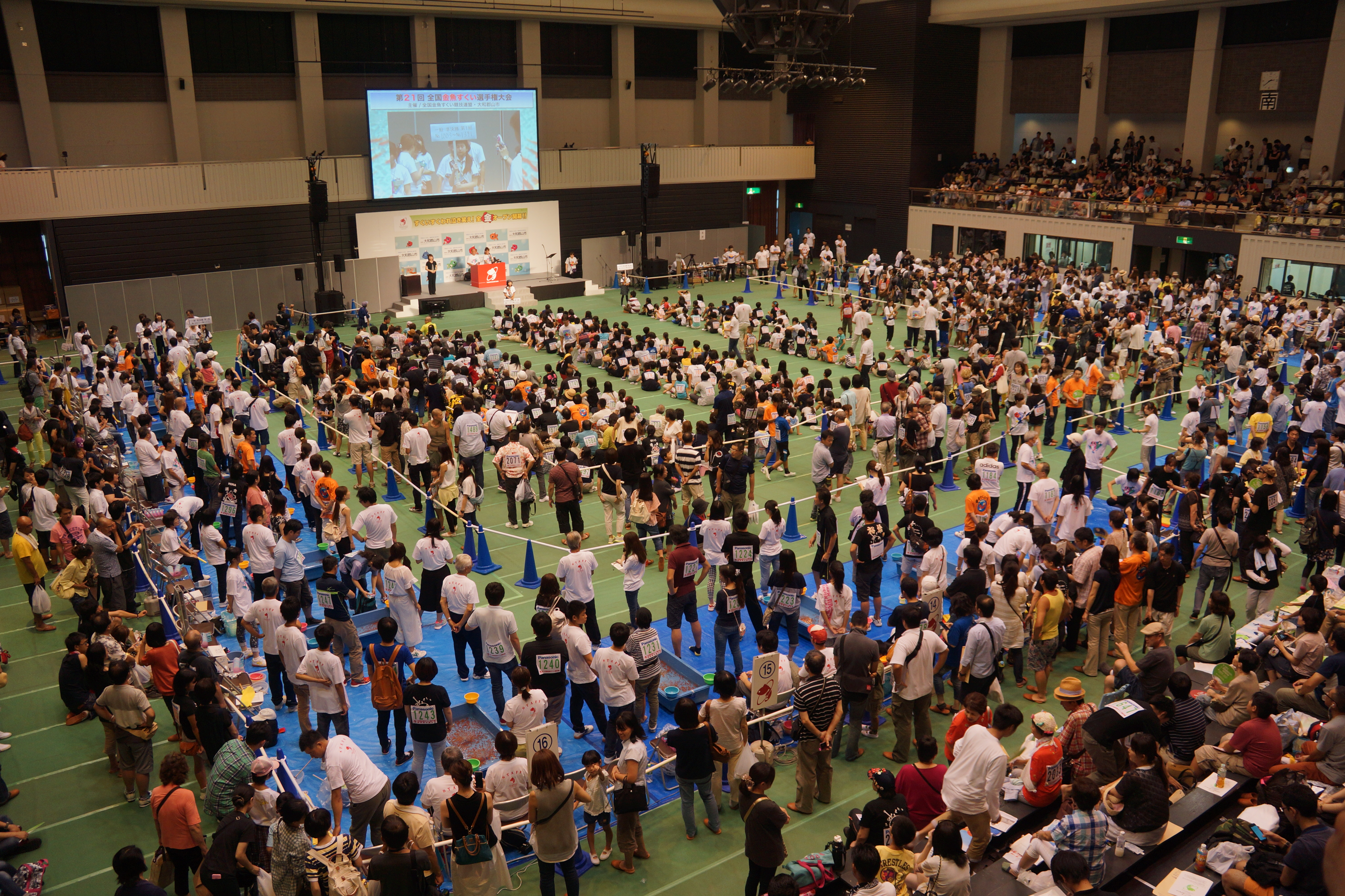 Yamato_Koriyama Goldfish scooping competion